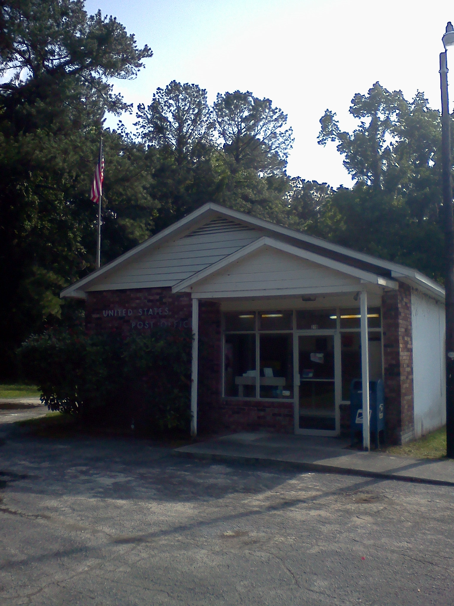 This Post Office is the only active building in downtown Seabrook today. It serves the remaining inhabitants of Seabrook